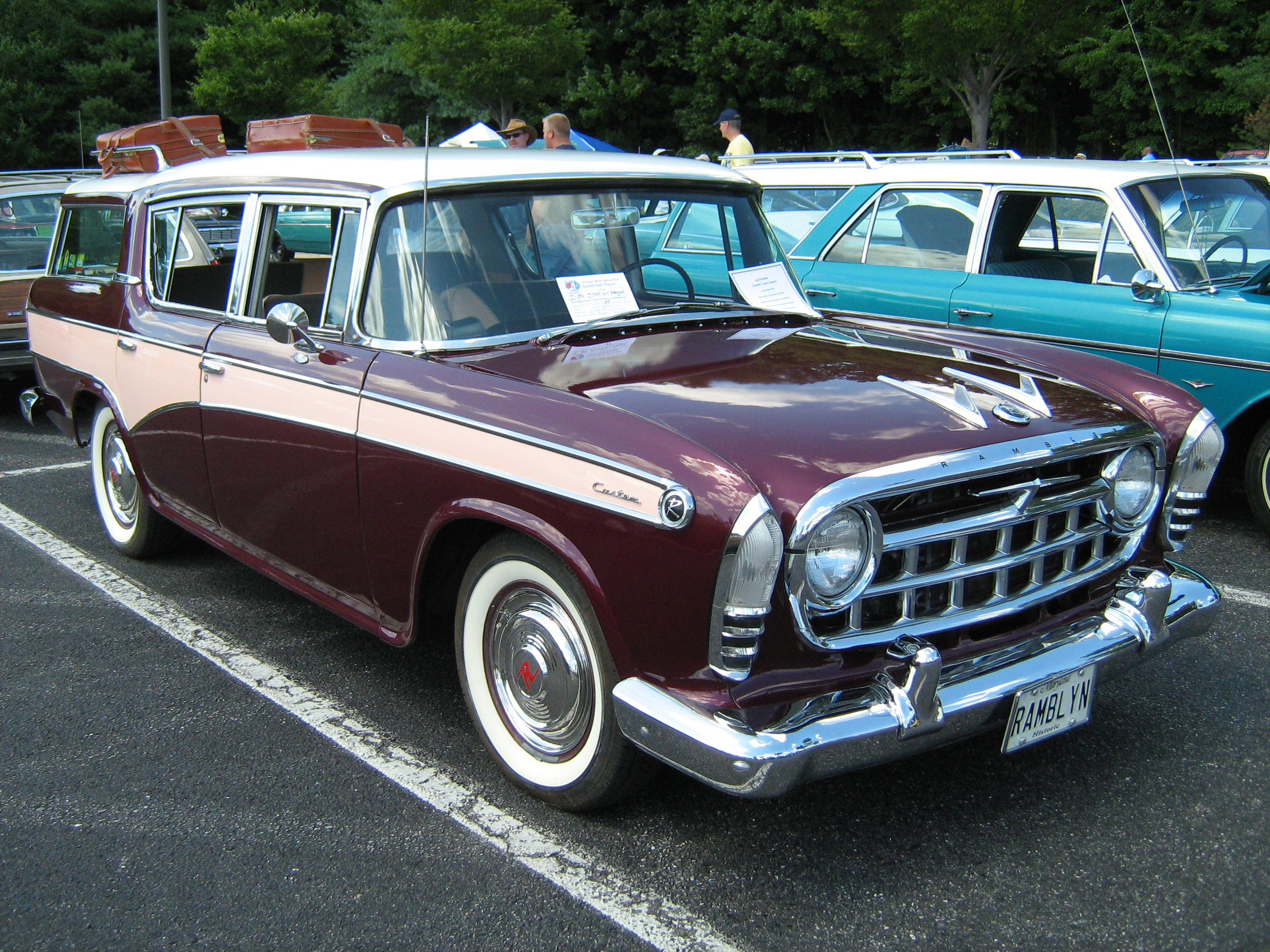 1957 Rambler built by American Motors Corporation (AMC). This is a "Cross-Country" station wagon body design in the Custom "trim" model. Factory correct tri-tone exterior paint and interior trim. Six cylinder with Hydramatic automatic transmission. Factory equipped with the "Weather Eye" heating and air conditioning system. Standard roof rack and correct AMC accessories. Picture was taken at the "2011 Potomac Ramblers Club" meeting in Maryland. Front right side view.